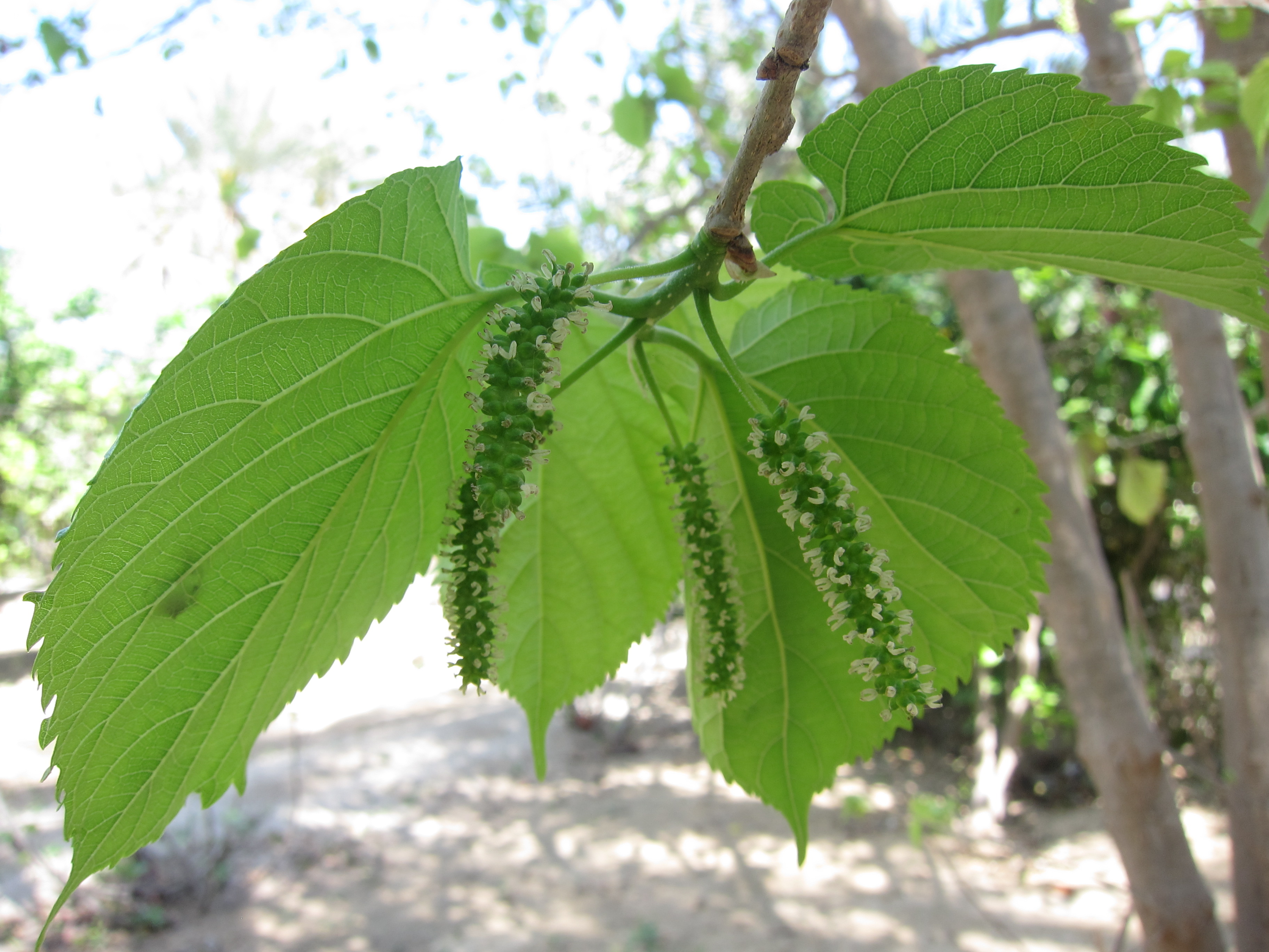 Mulberry Green - മൾബറി പച്ച